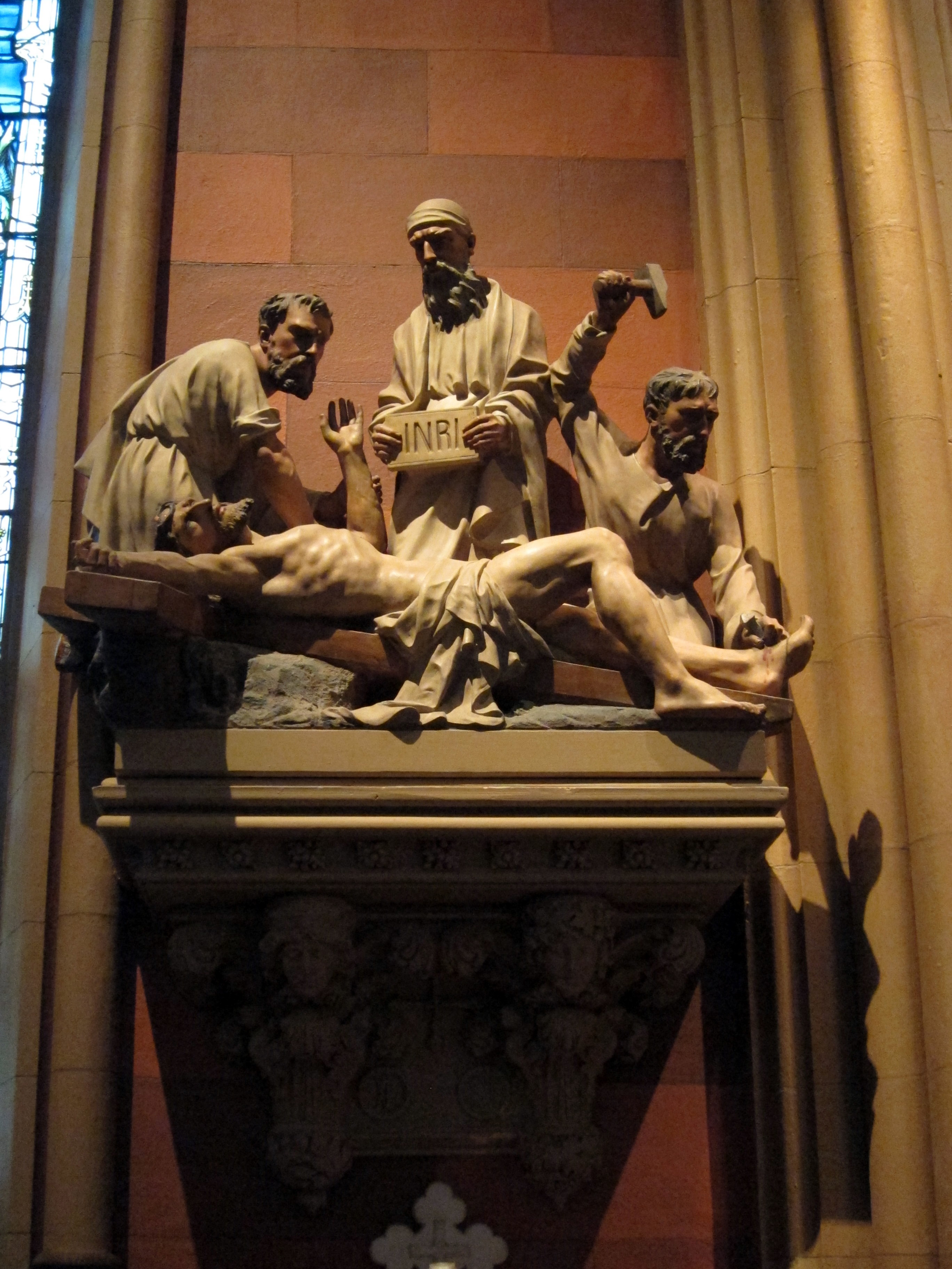 Cathedral of the Immaculate Conception (Albany, New York) - interior, Station of the Cross XI